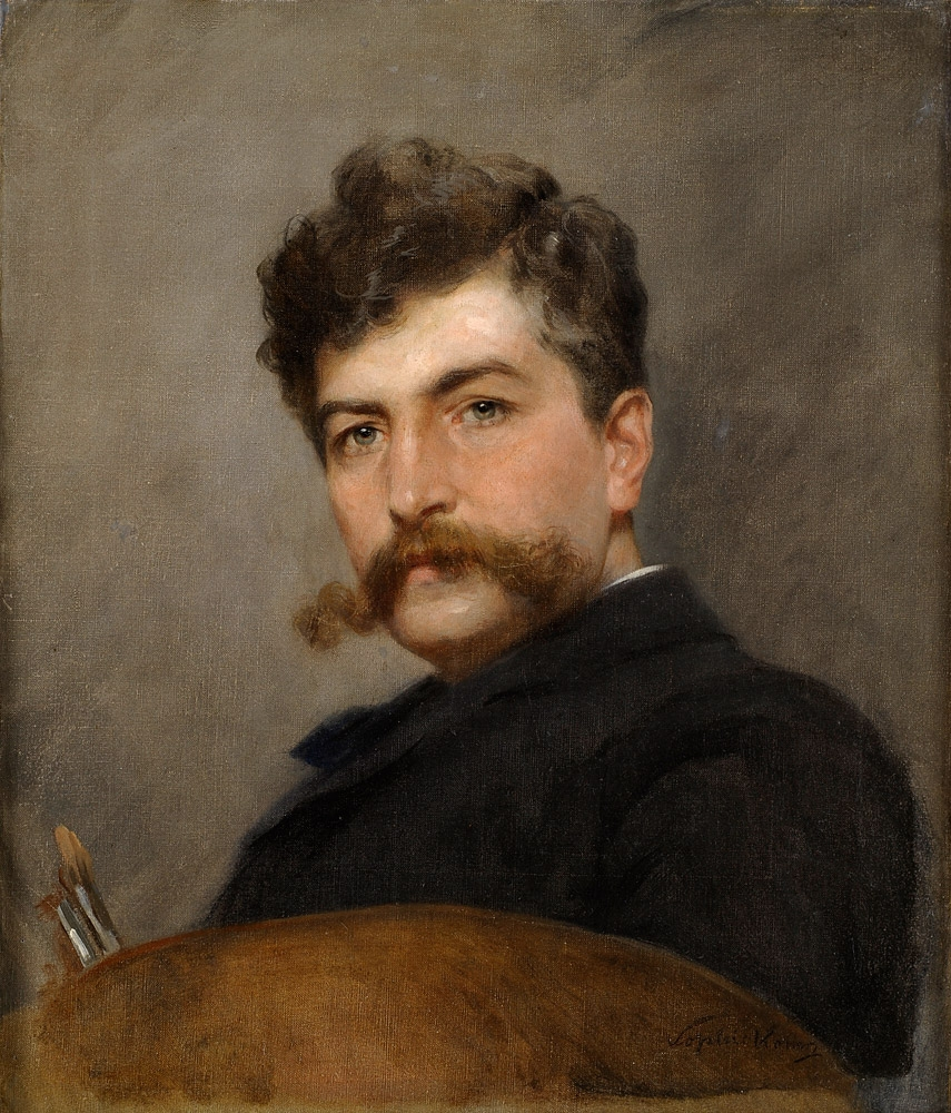 Note: A portrait of her husband Max Koner (1854-1900)